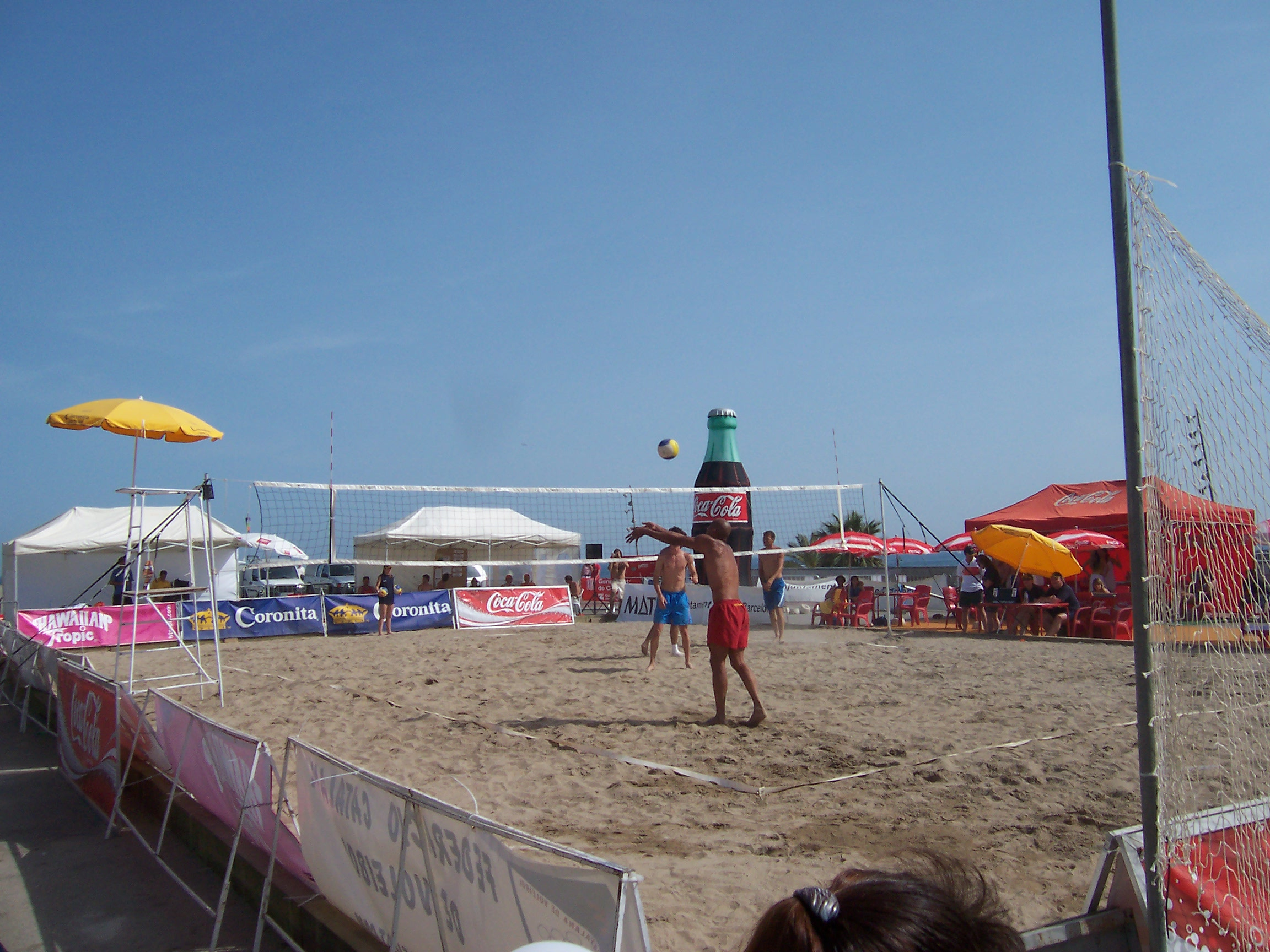 Beach volleyball at Port Olympic, in Barcelona.